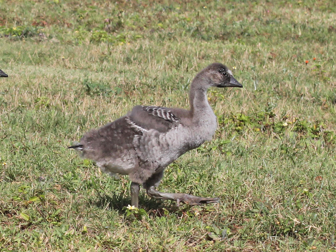 Nene, also Hawaiian Goose (Branta sandvicensis) - Kauai, Hawaii